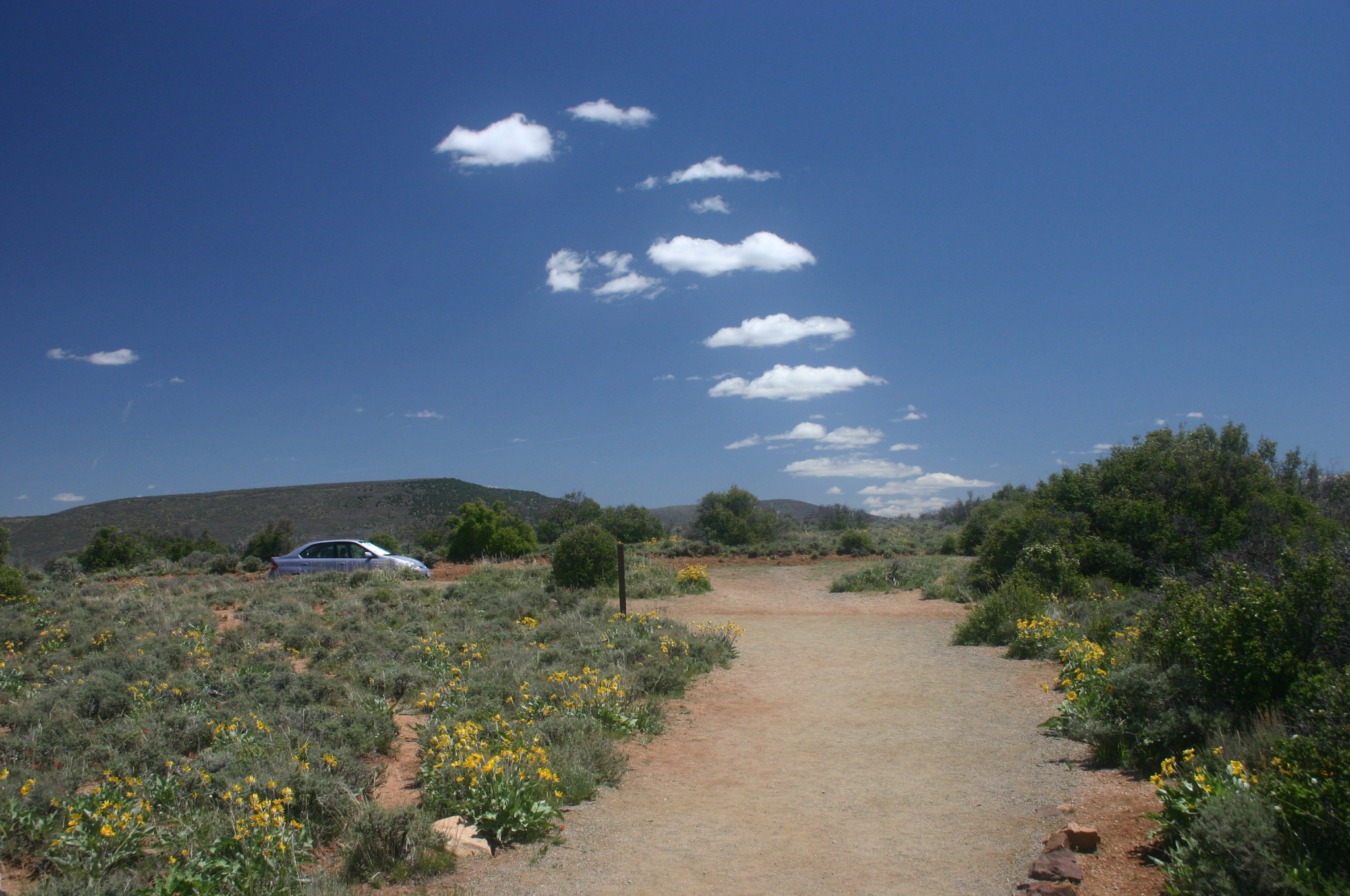 God's Path is Higher than Men's Path. A continuation of the trail goes heavenly into cloudscape.